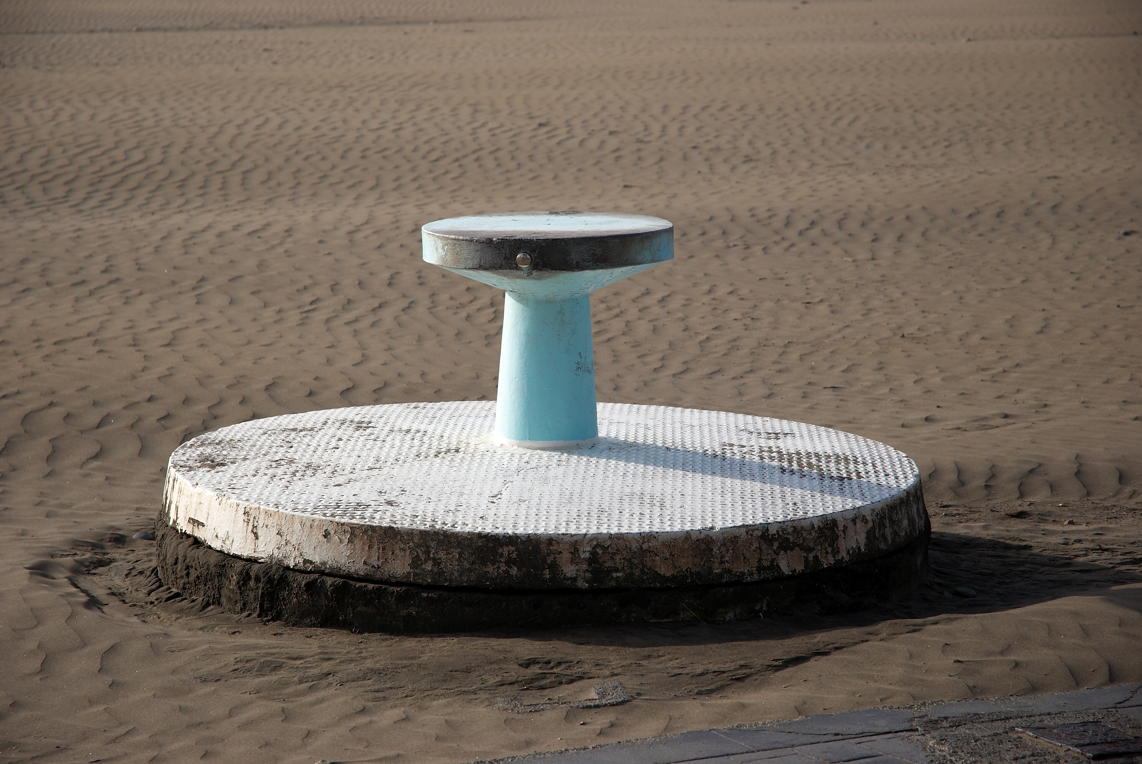 Feet shower at the beach Playa de Las Burras, San Agustín, Gran Canaria